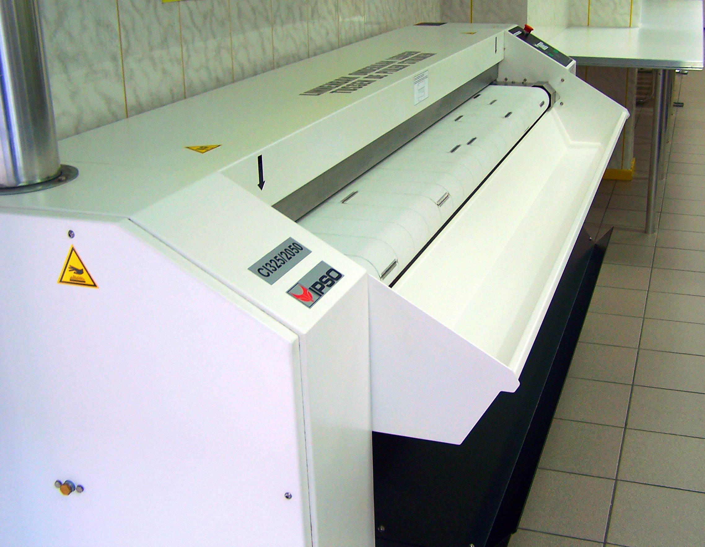 Magiel